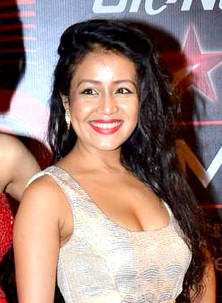 Singer Neha Kakkar at 4th Gionnee Star Global Indian Music Academy Awards.